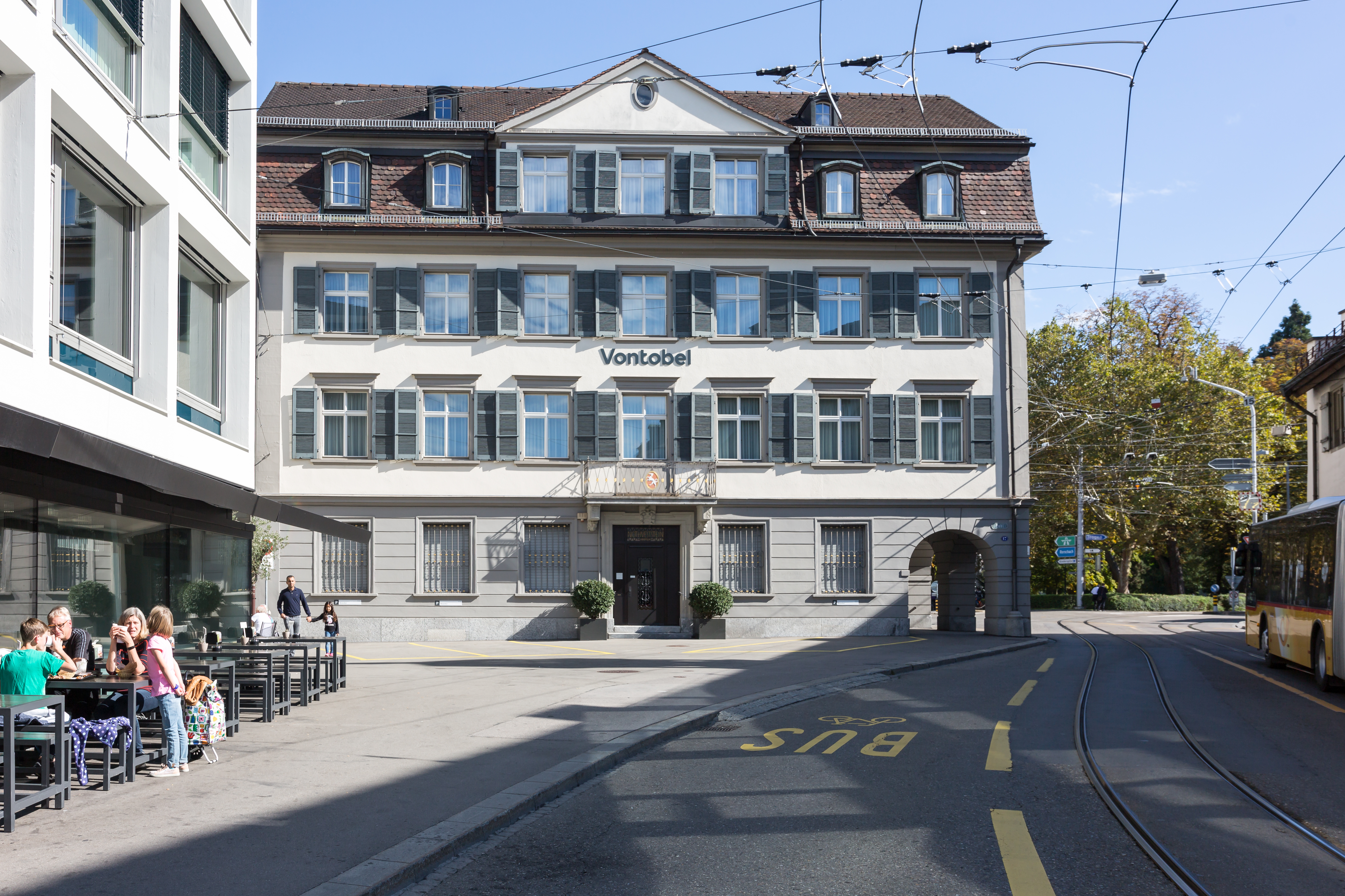 Vontobel wealth management offices, St. Gallen